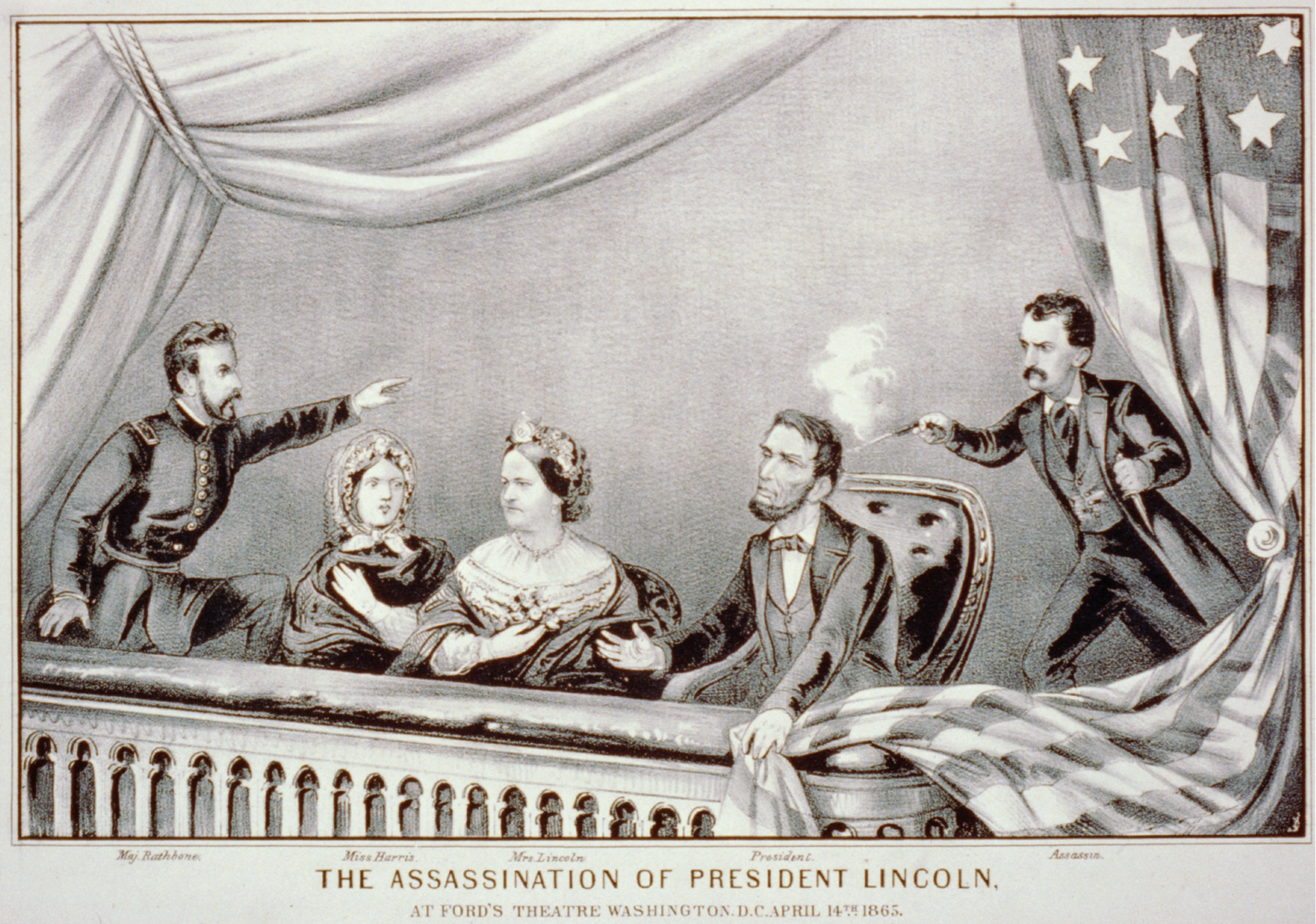 Lithograph of the Assassination of Abraham Lincoln. From left to right: Henry Rathbone, Clara Harris, Mary Todd Lincoln, Abraham Lincoln, and John Wilkes Booth. Rathbone is depicted as spotting Booth and rising up to stop him as Booth fired his weapon. Rathbone actually was unaware of Booth’s approach, and reacted after the shot was fired. While Lincoln is depicted clutching the flag after being shot, it is also possible that he just simply pushed the flag aside to watch the performance.